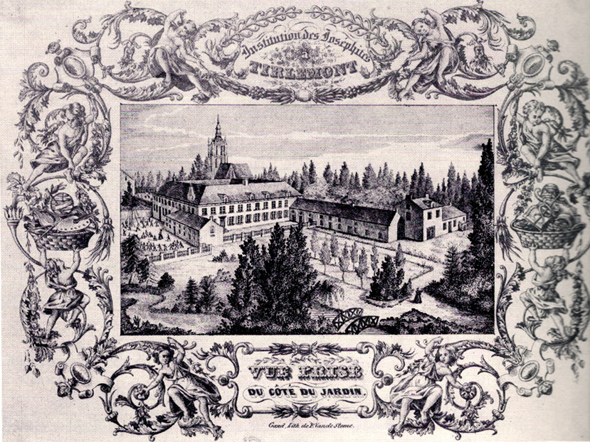 Scan of a pen drawing of Stanislas College Tienen dating from about 1850.